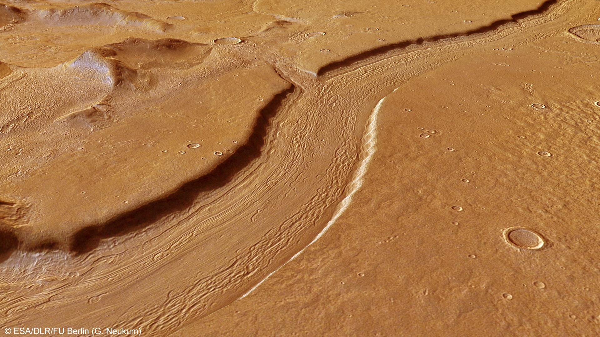 This computer-generated perspective view of Reull Vallis was created using data obtained from the High-Resolution Stereo Camera (HRSC) on ESA’s Mars Express. Centred at around 41°S and 107°E, the image has a ground resolution of about 16 m per pixel. This perspective view shows a small tributary channel which, in the wider context view, is seen to later merge back into the main channel. Strong linear features are clearly seen on the valley floor in this view, evidence of ice and loose debris scraping away the floor in a glacial-like manner. For more information and images from the latest MEX image release, please click here. Credit: ESA/DLR/FU Berlin (G. Neukum), CC BY-SA 3.0 IGO Copyright Notice: This work is licenced under the Creative Commons Attribution-ShareAlike 3.0 IGO (CC BY-SA 3.0 IGO) licence. The user is allowed to reproduce, distribute, adapt, translate and publicly perform this publication, without explicit permission, provided that the content is accompanied by an acknowledgement that the source is credited as 'ESA/DLR/FU Berlin’, a direct link to the licence text is provided and that it is clearly indicated if changes were made to the original content. Adaptation/translation/derivatives must be distributed under the same licence terms as this publication. To view a copy of this license, please visit